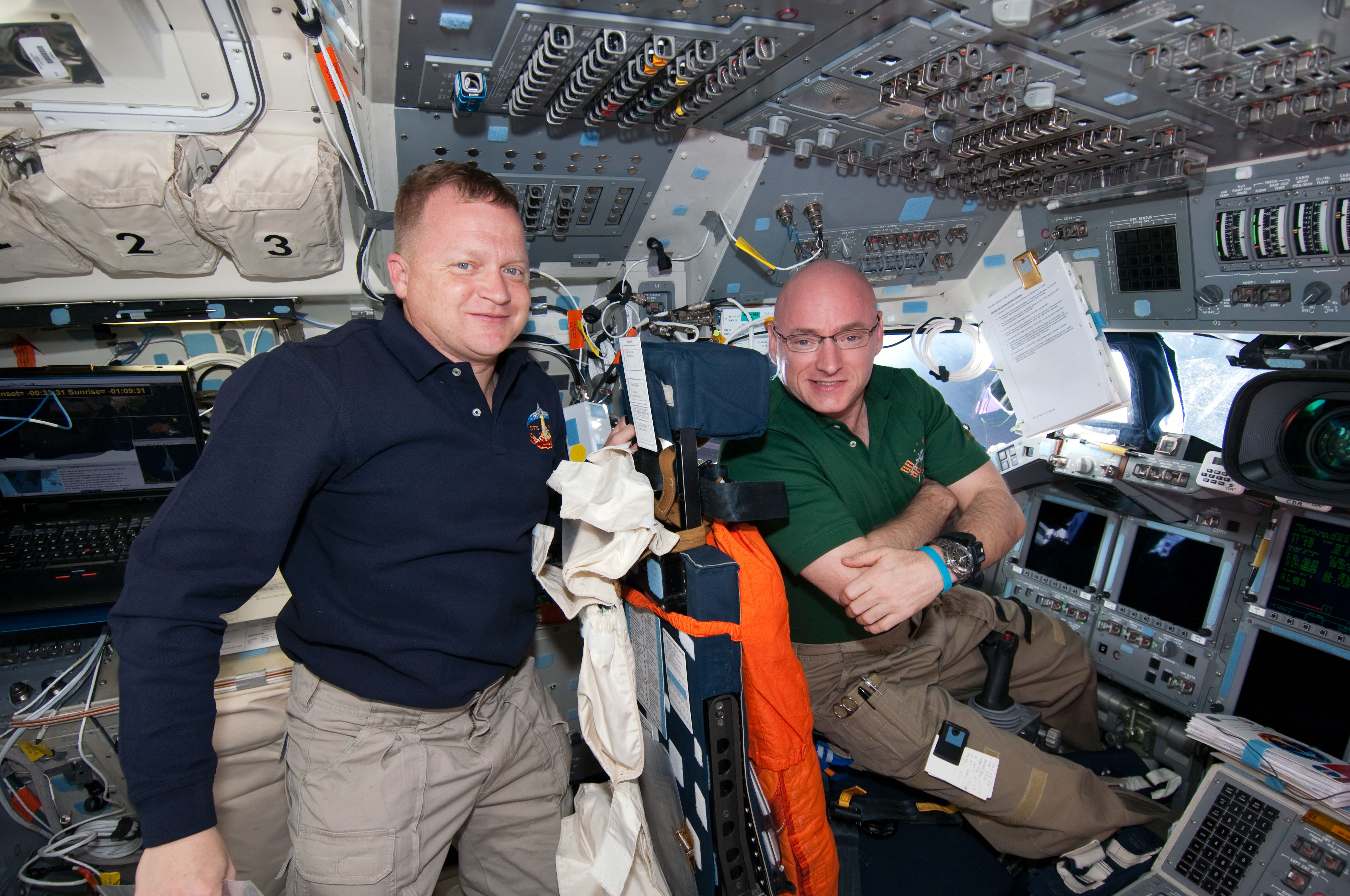 NASA astronauts Eric Boe (left), STS-133 pilot; and Scott Kelly, Expedition 26 commander, take a moment for a photo on the flight deck of space shuttle Discovery while docked with the International Space Station.